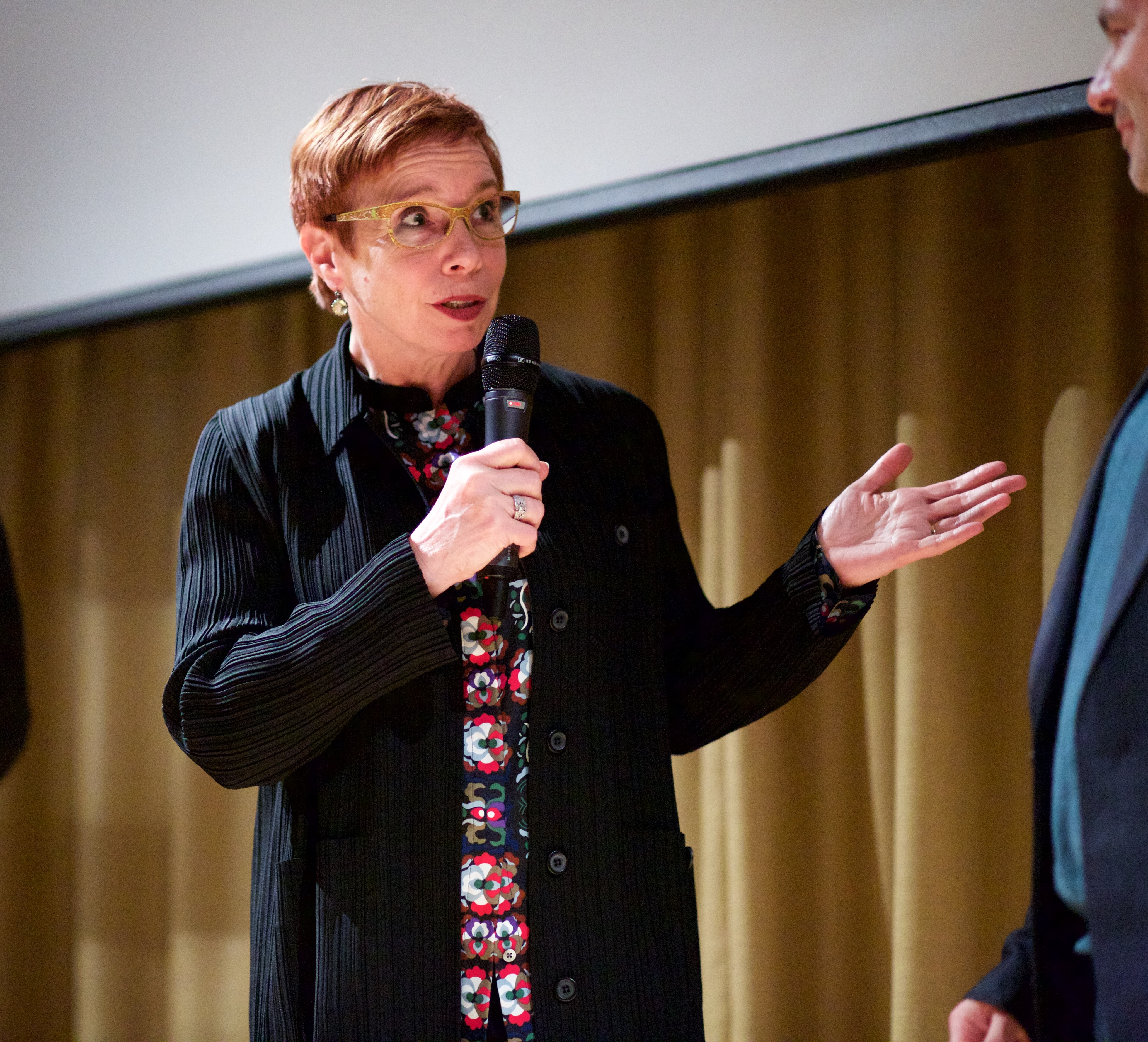 Design & The City (19 - 22 April 2016) explores citizen-centered design approaches for the smart city. Central theme is the role of design(ers) to create opportunities and practices for citizens, (social) entrepreneurs and policy makers towards more liveable, sustainable and sociable urban futures.